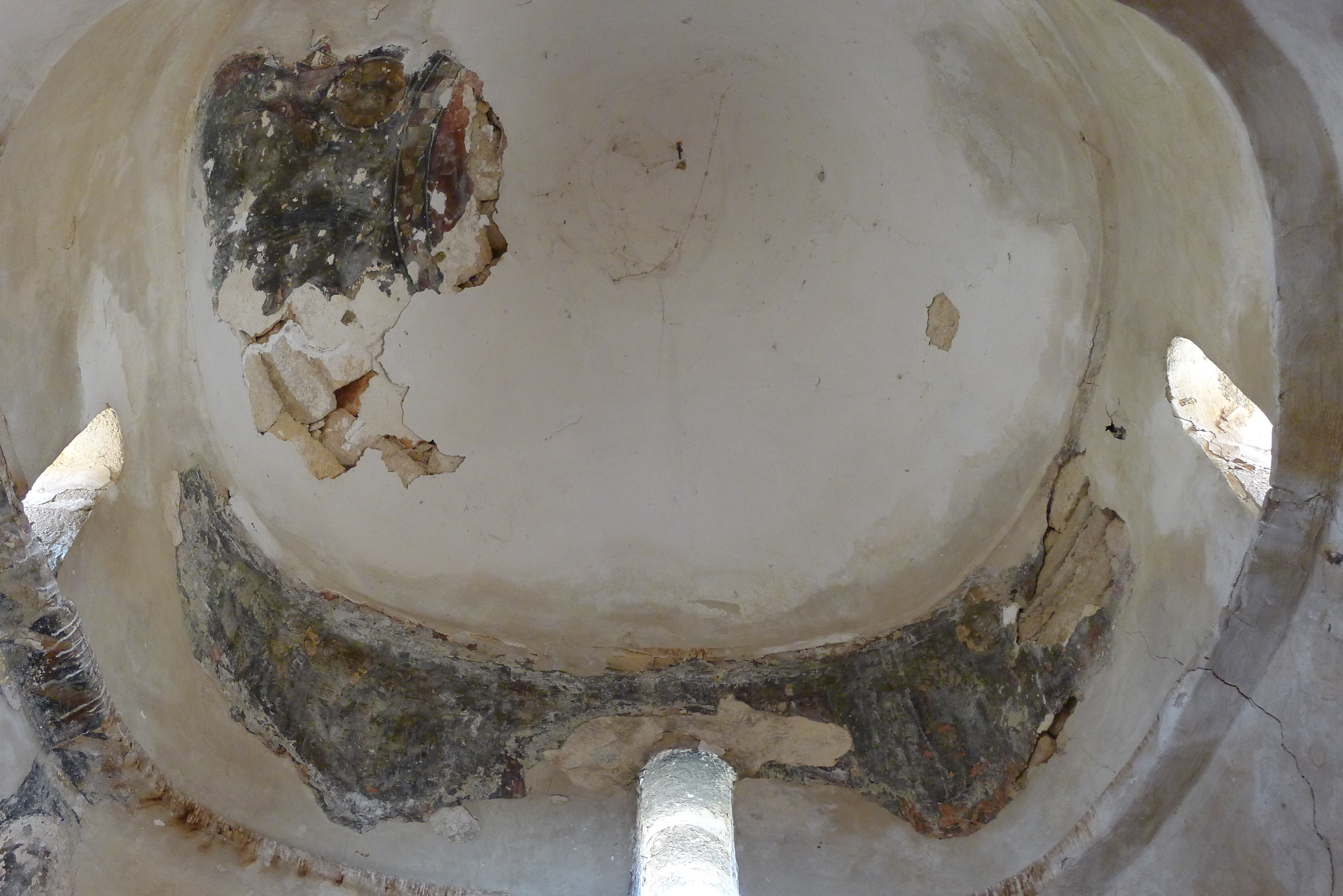 Dome of Panagia Kyra, Cyprus (2012).